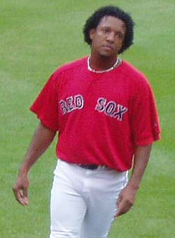 Pedro Martinez warming up in right field of Fenway Park before a game against the Minnesota Twins, June 22, 2004.